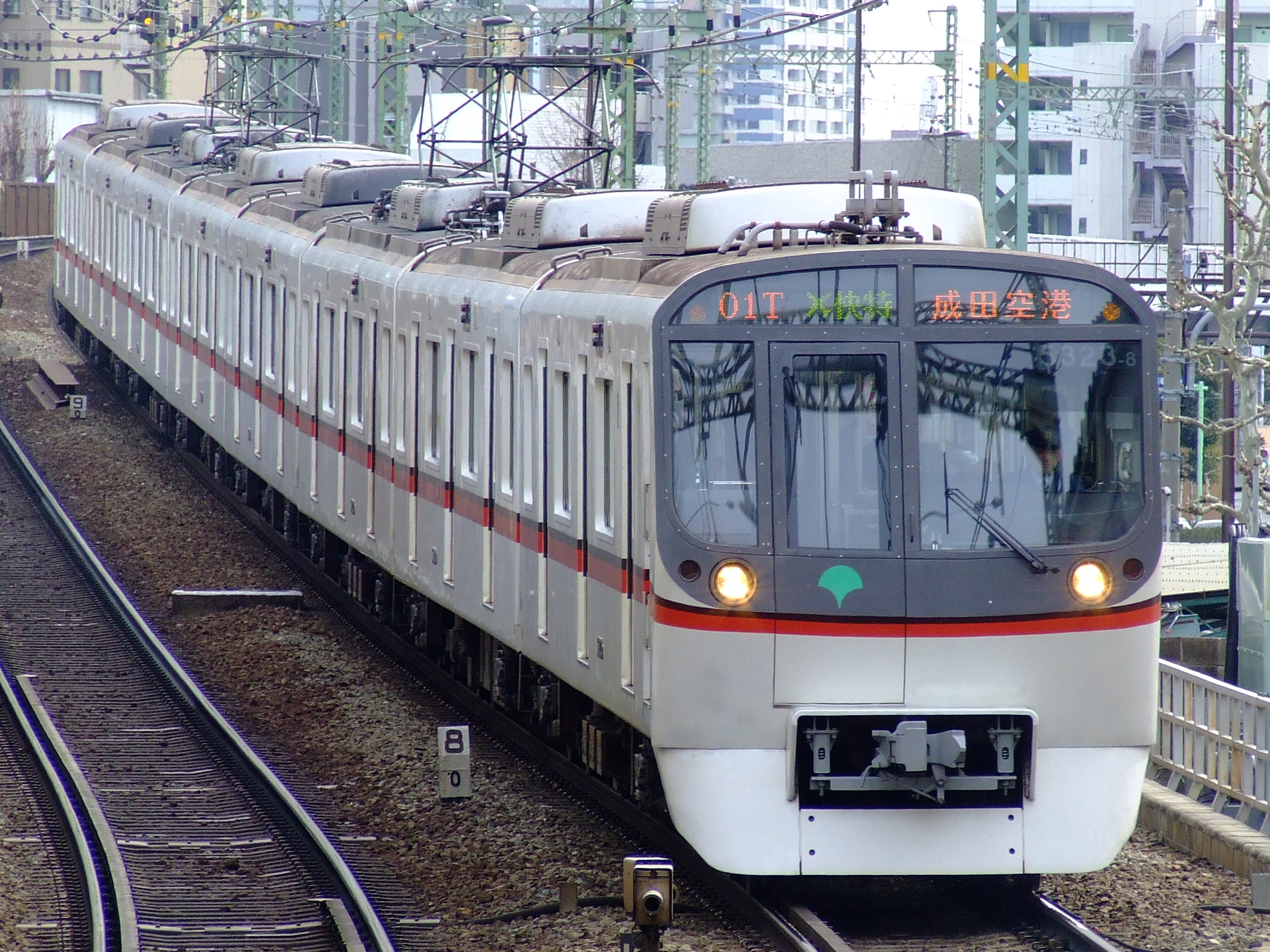 Toei 5300 series EMU set 5323